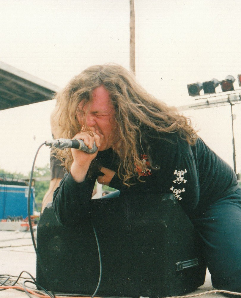 This photo is of Seth performing at the Relapse Festival in 1993 in Maryland. I (his wife) use it for our label website, slightly modified to include the label name.